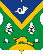 Kuntsevo (municipality in Moscow), coat of arms